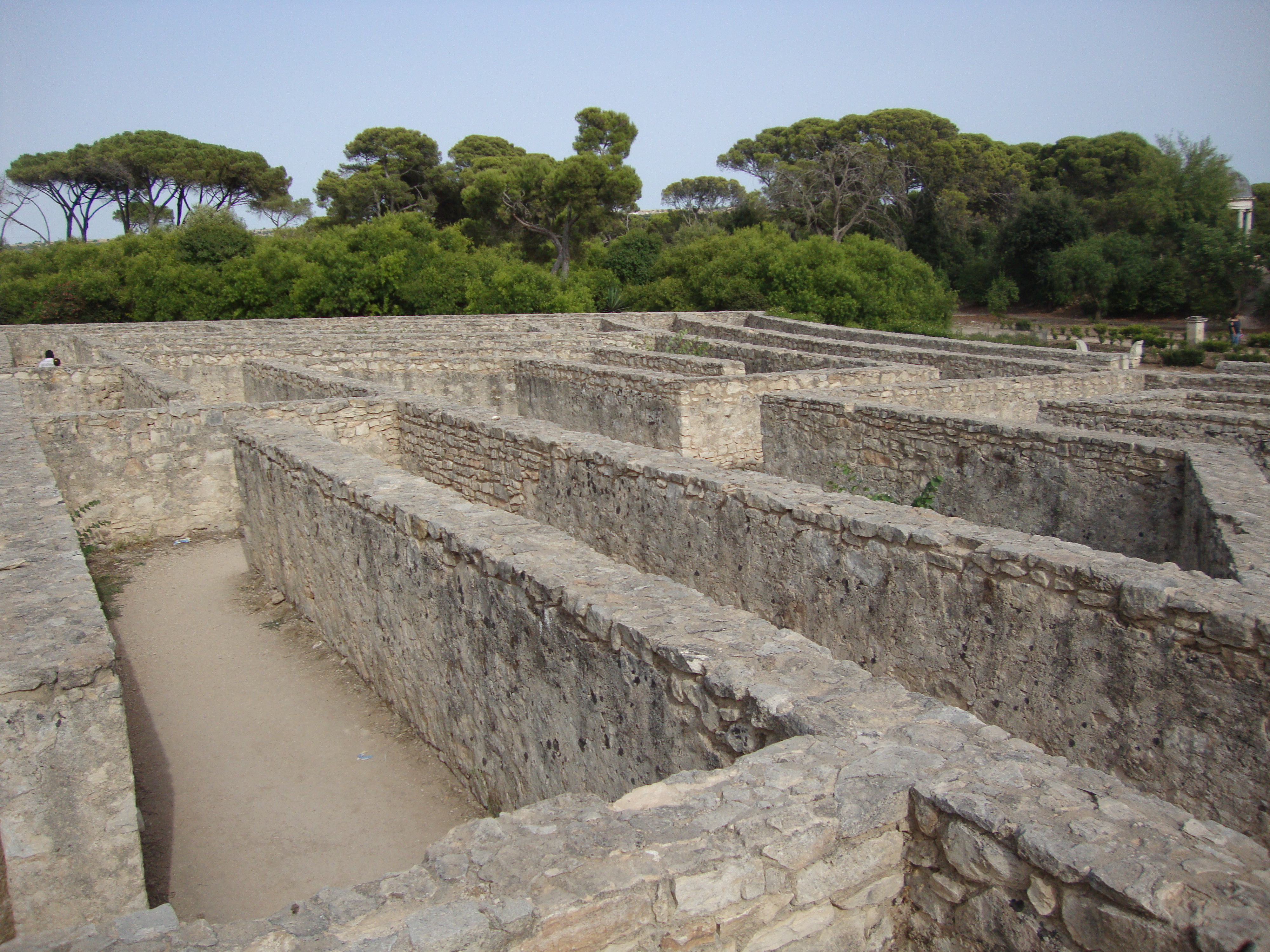 Maze at Castello di Donnafugata (RG), Italy